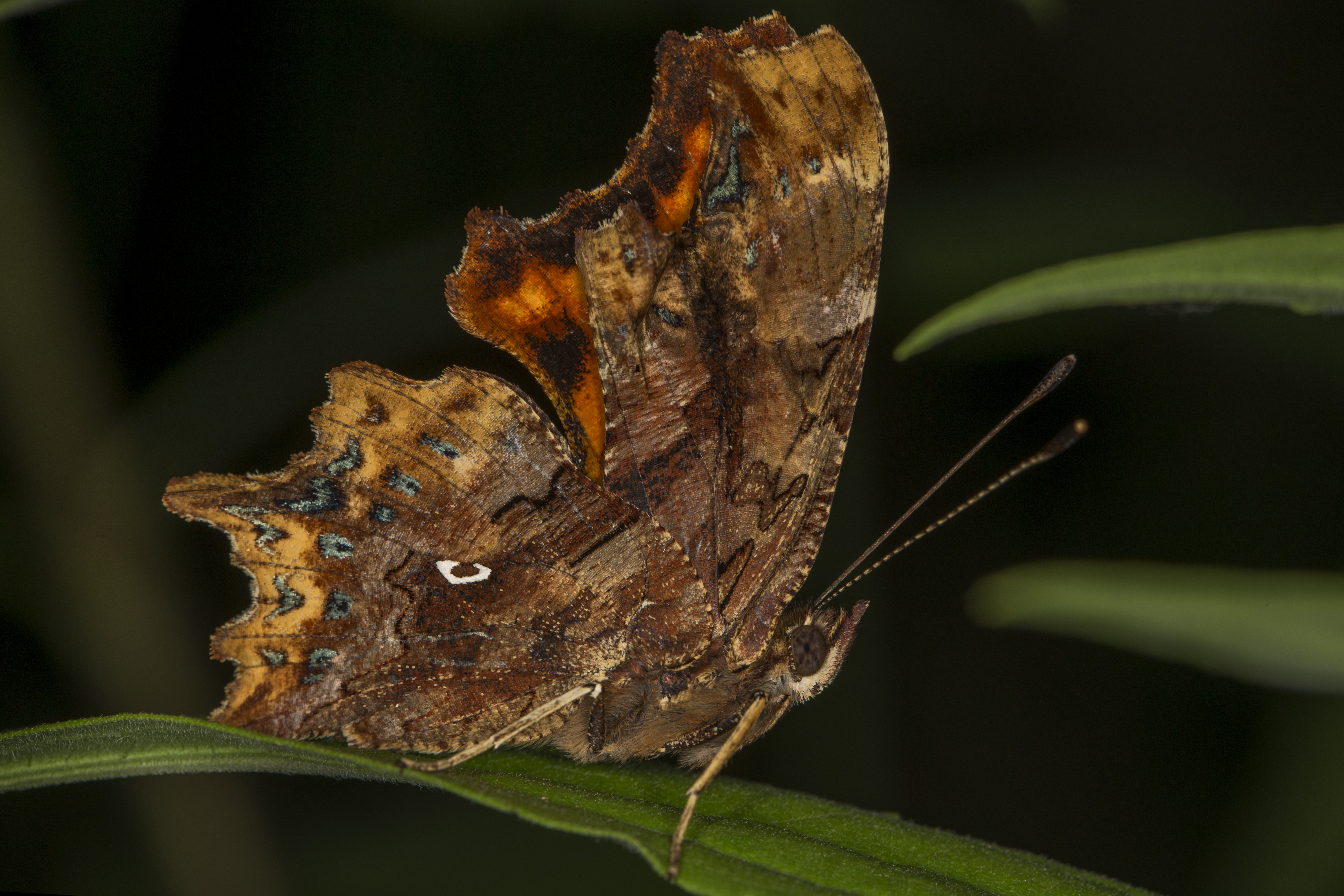 The Comma